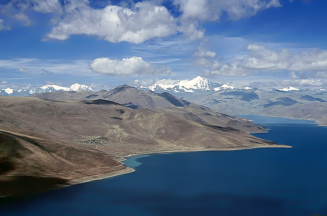 Lake Yamdroktso, Tibet Autonomous Region, China